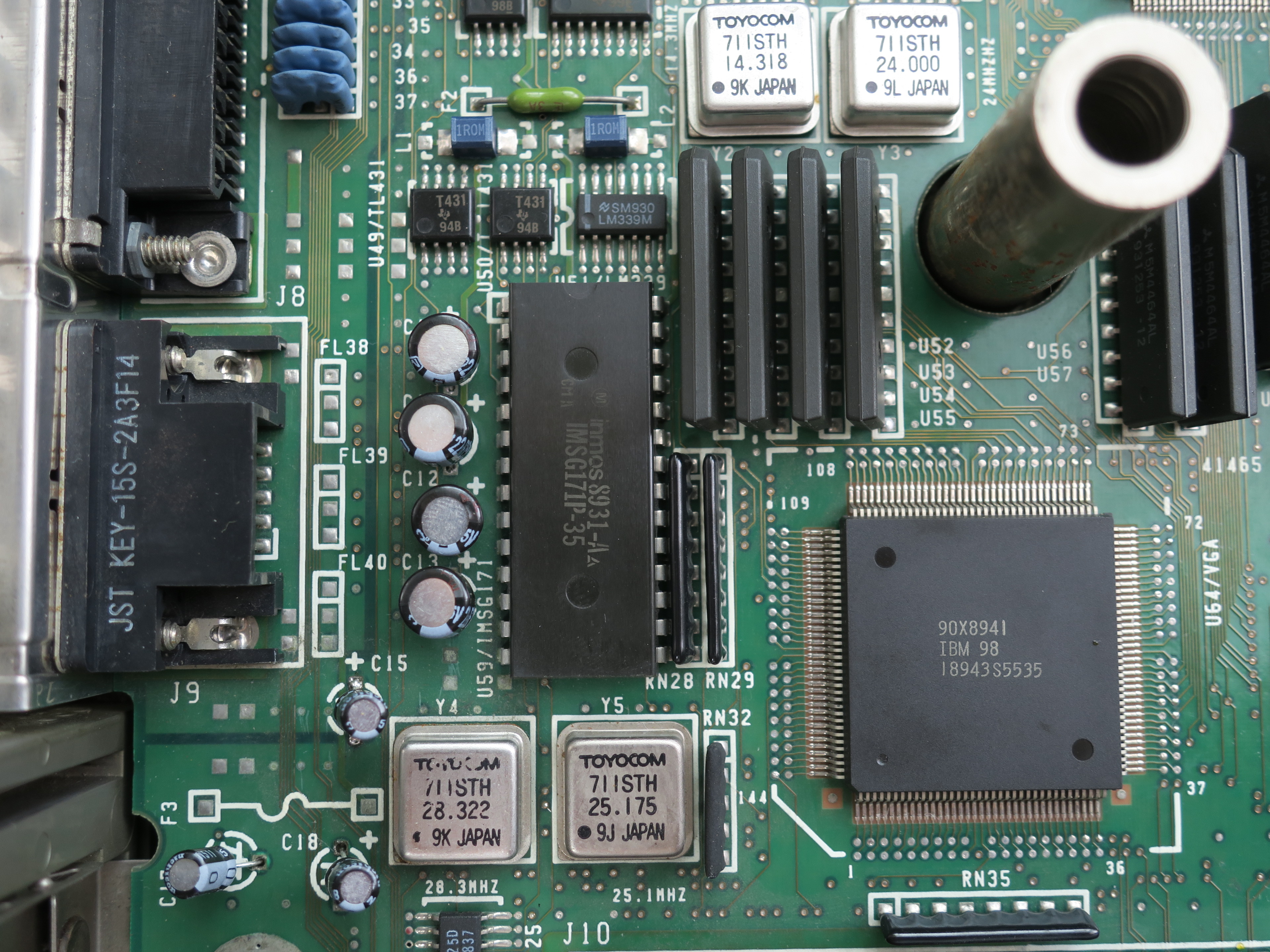 VGA section on the System Board in IBM PS/55 model 5550-T released in 1988. You can see IBM's custom VLSI chip marked as VGA, 256 KB video RAM, the INMOS G171 RAMDAC, 25.175 and 28.322 kHz oscillators.